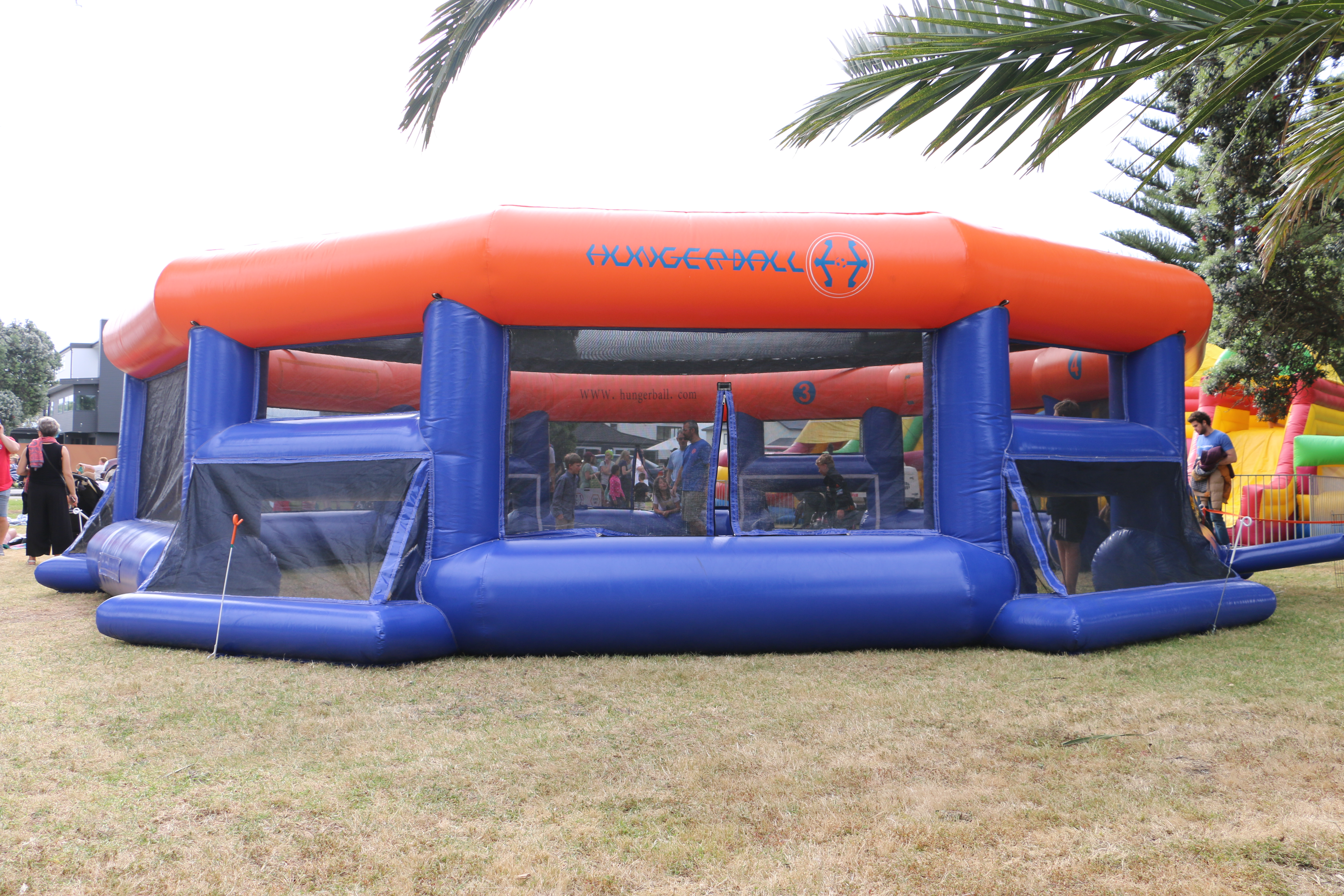 Hungerball uses an inflatable arena with six small goals.